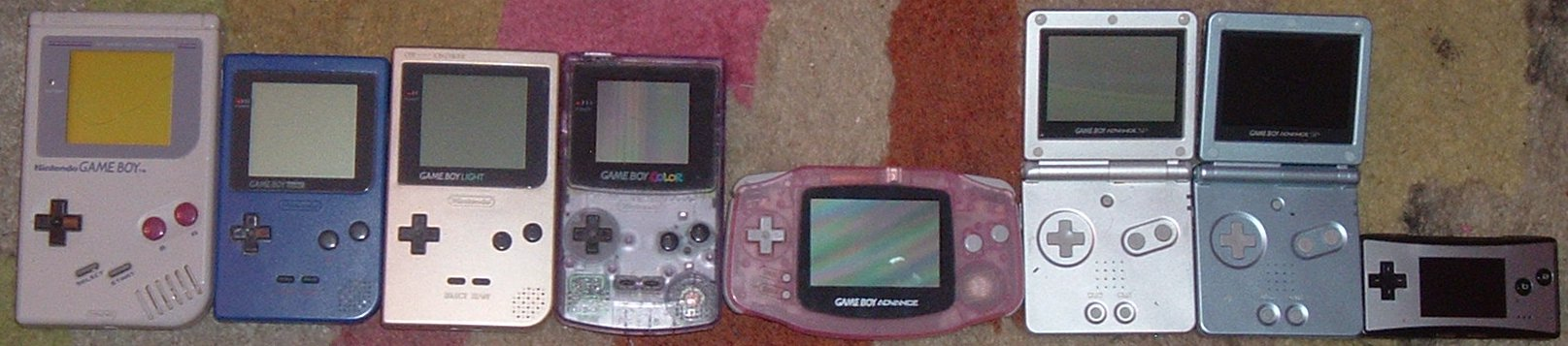 From left to right: Game Boy (original), Pocket, Light, Color, Advance, Advance SP (backlit), Advance SP and Micro